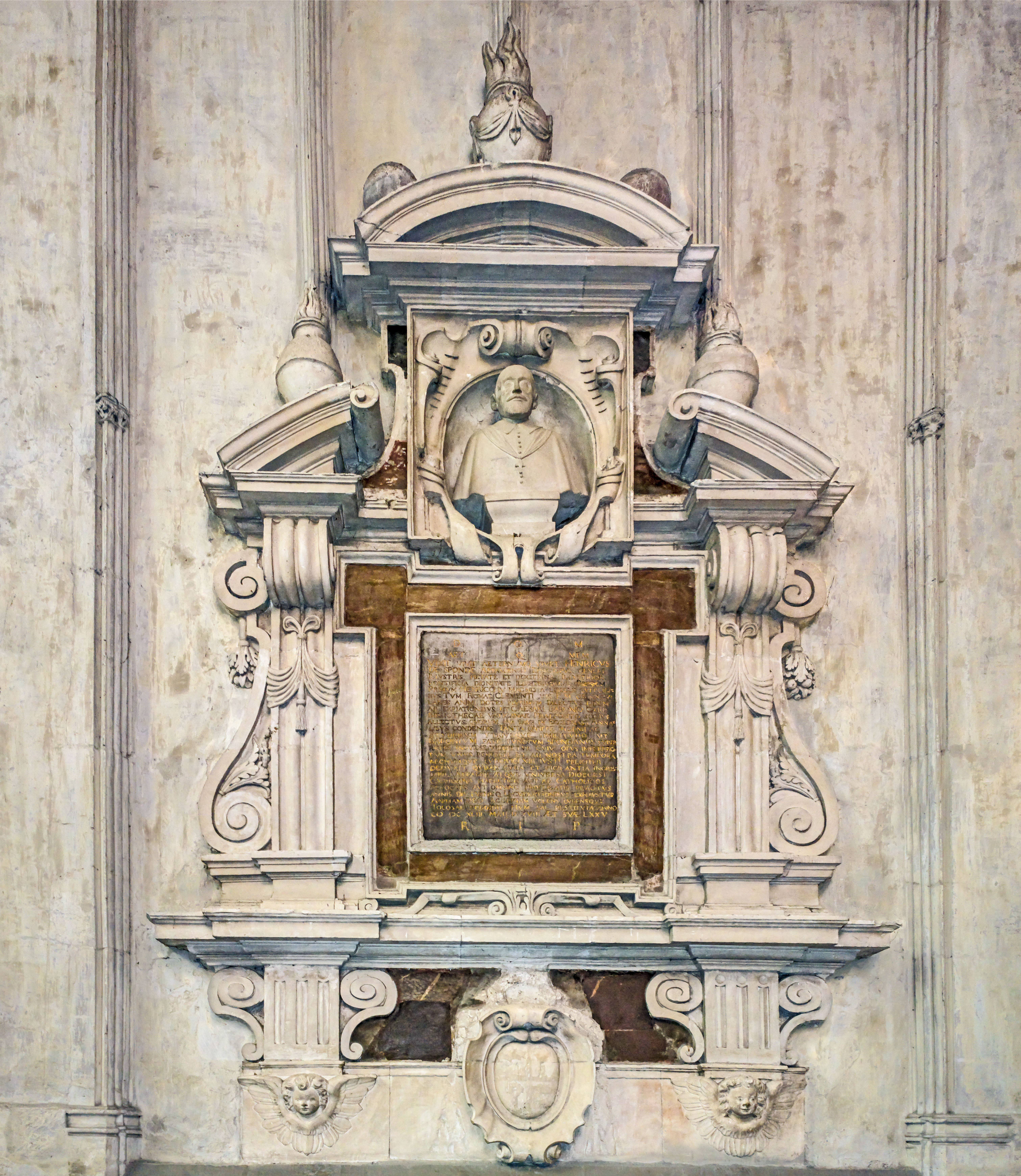 Stele of Henri de Sponde Cathedral Saint-Etienne Toulouse.